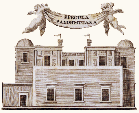 Engraving from: Praecipuarum stellarum inerrantium positiones mediae ineunte saeculo xix : ex observationibus habitis in Specula Panormitana ab anno 1792 ad annum 1813. Panormi (Palermo), 1814, by Giuseppe Piazzi (1746-1826).